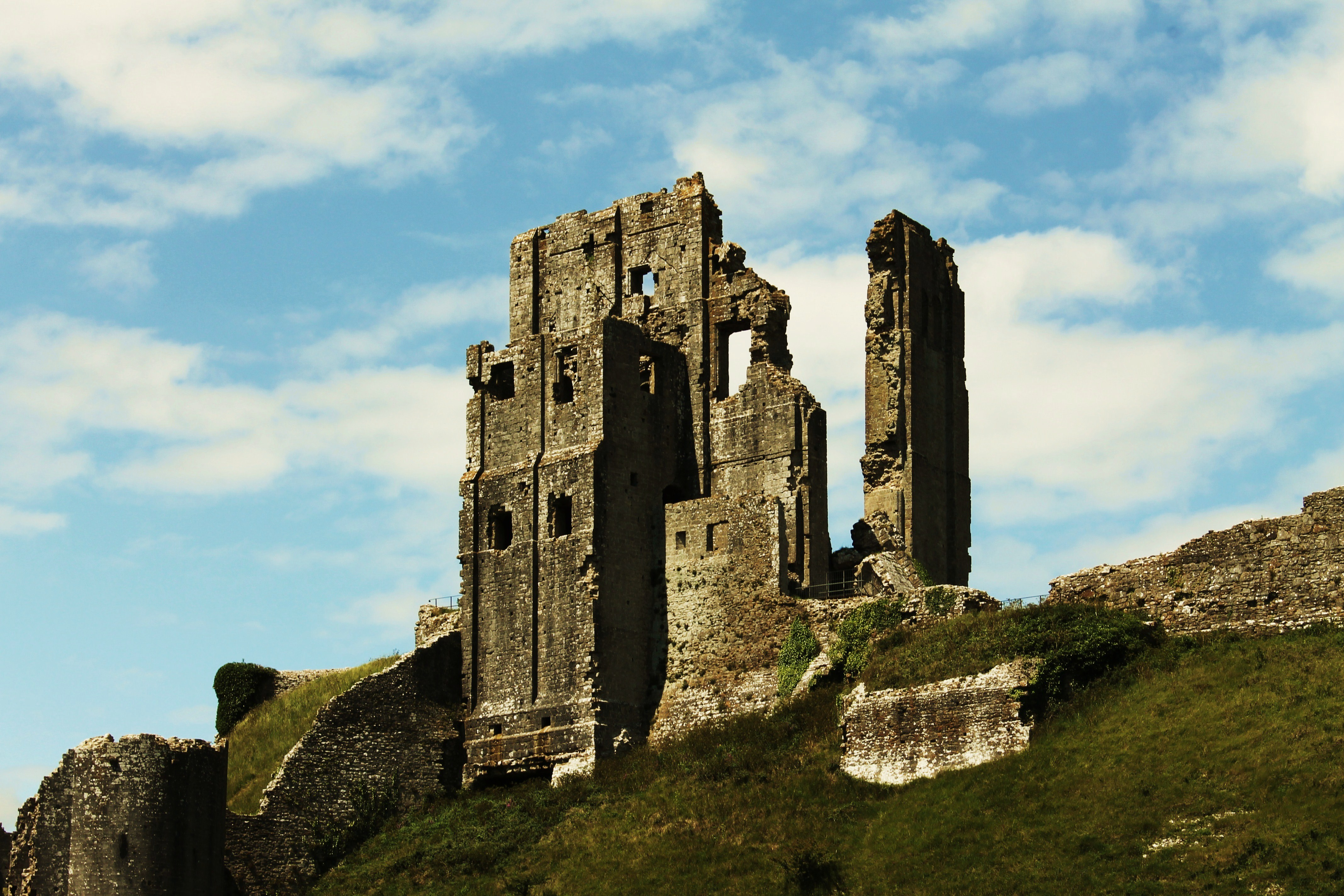 Alt of File:Corfe Castle 05-07-12.JPG (less saturated)